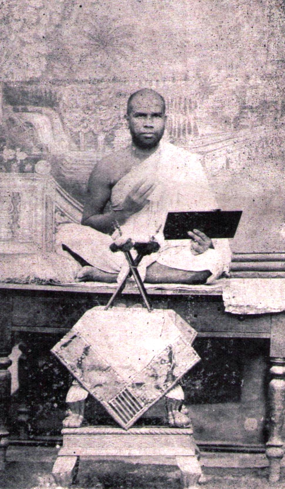 Jain Monk known as Atmaram as well as Vijayanand Suri.